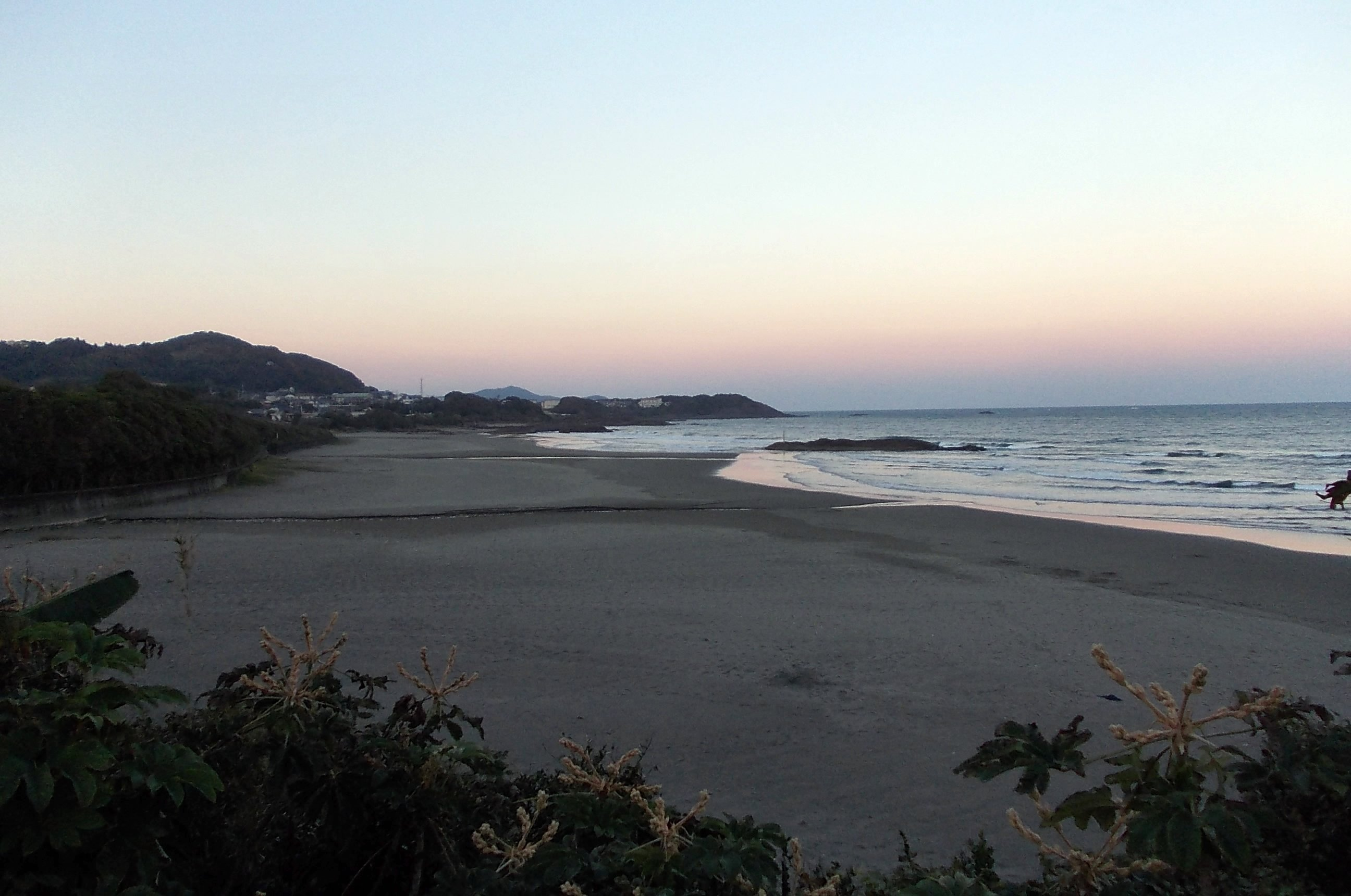 Kanegahama Beach, Hyuga, Miyazaki, Japan